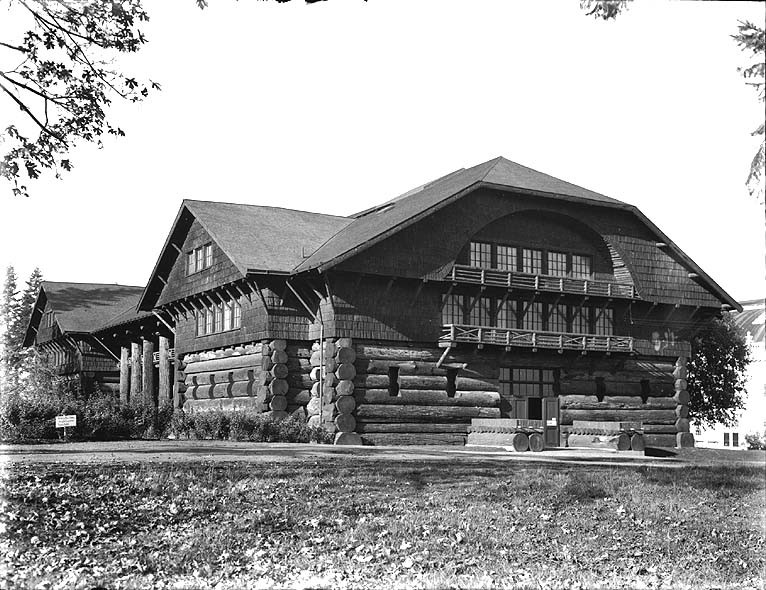 On sleeve of negative incorrectly identified as: AYP Expo. Oregon Building Subjects (LCTGM): Log buildings--Oregon--Portland Subjects (LCSH): Exhibition buildings--Oregon--Portland; Forestry Building (Portland, Or.); Lewis and Clark Centennial Exposition (1905 : Portland, Or.); Portland (Or.)--Buildings, structures, etc.